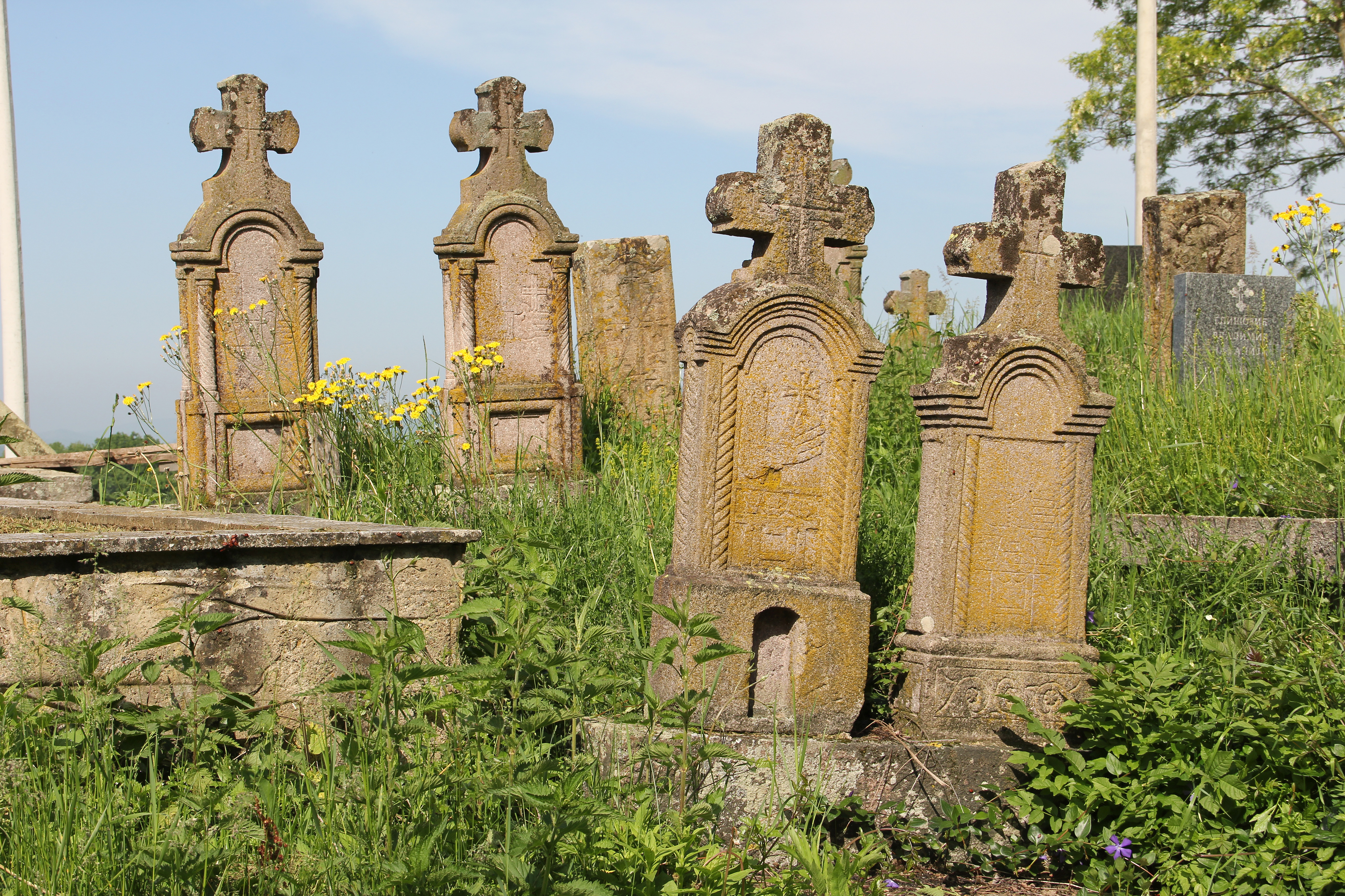 Old gravestones at the cemetery in the village of Jablanica (the municipality of Gornji Milanovac), Serbia.